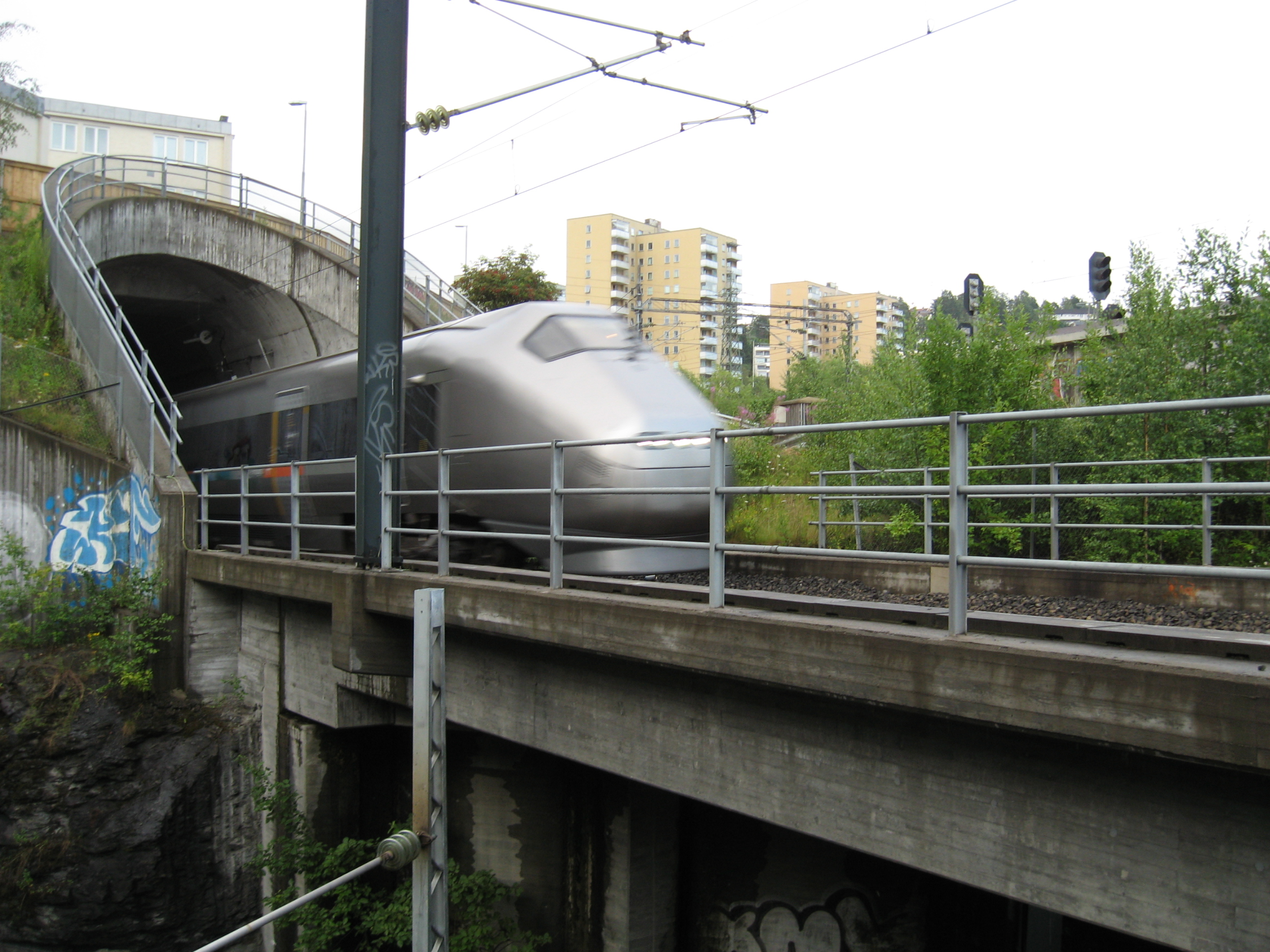 The Airport Express Train emerges from the Romeriksporten railway tunnel at Etterstad, on its way in to Oslo Central Station.